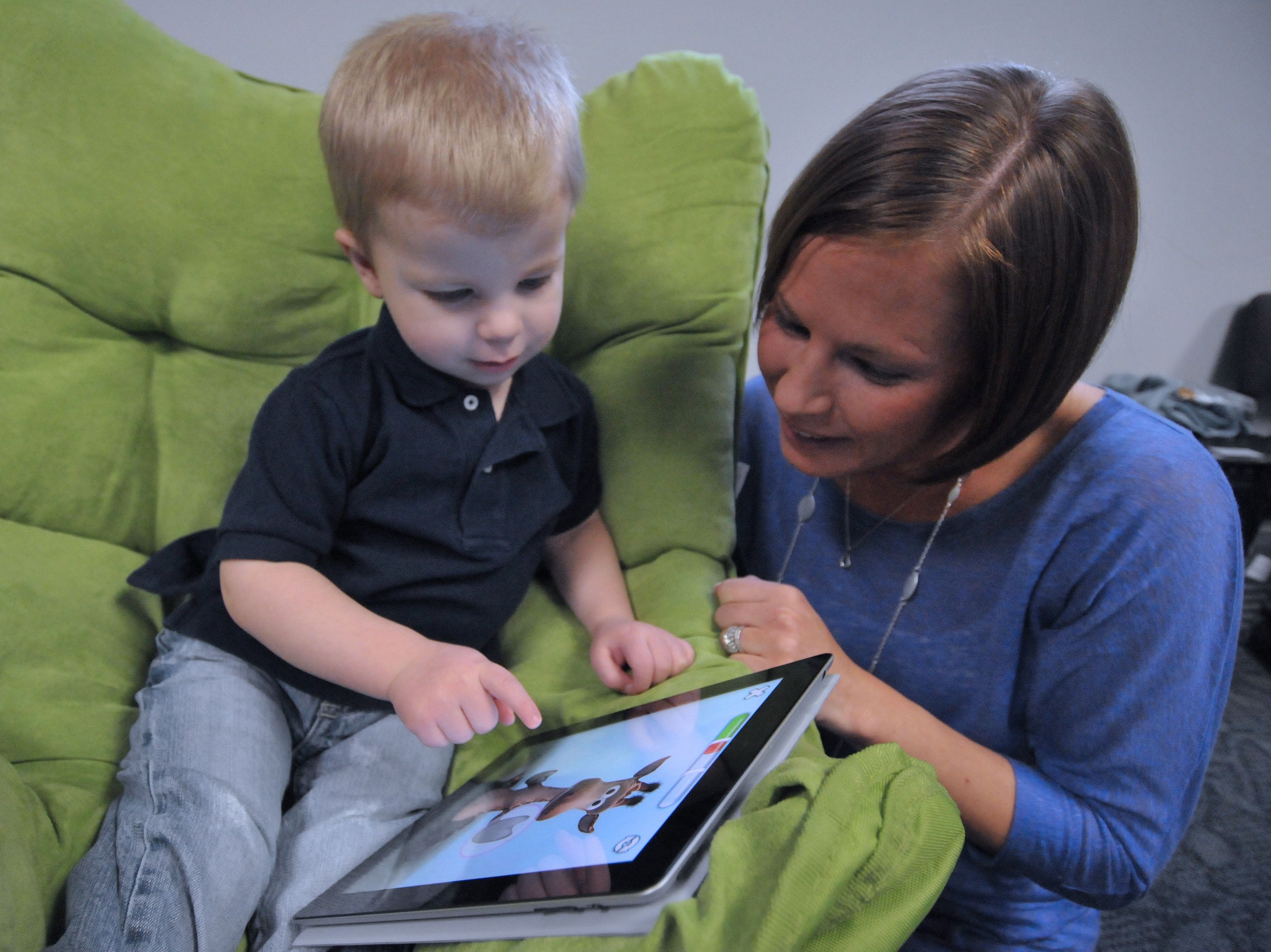 18-month old Sawyer Aakre is already a natural on the Apple iPad